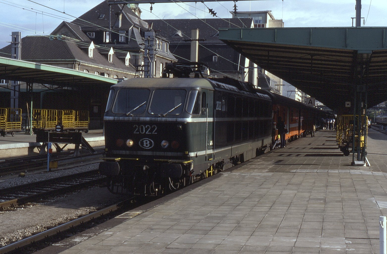 Seen on an international train from Italy or Switzerland through to Brussels Midi. These trains would be worked into Luxembourg usually by a class BB1500. Following reversal, regular power was an SNCB/NMBS class 20. Seen here at Luxembourg on 12 September 1987 is 2022 in dark green livery which disappeared within a few years.